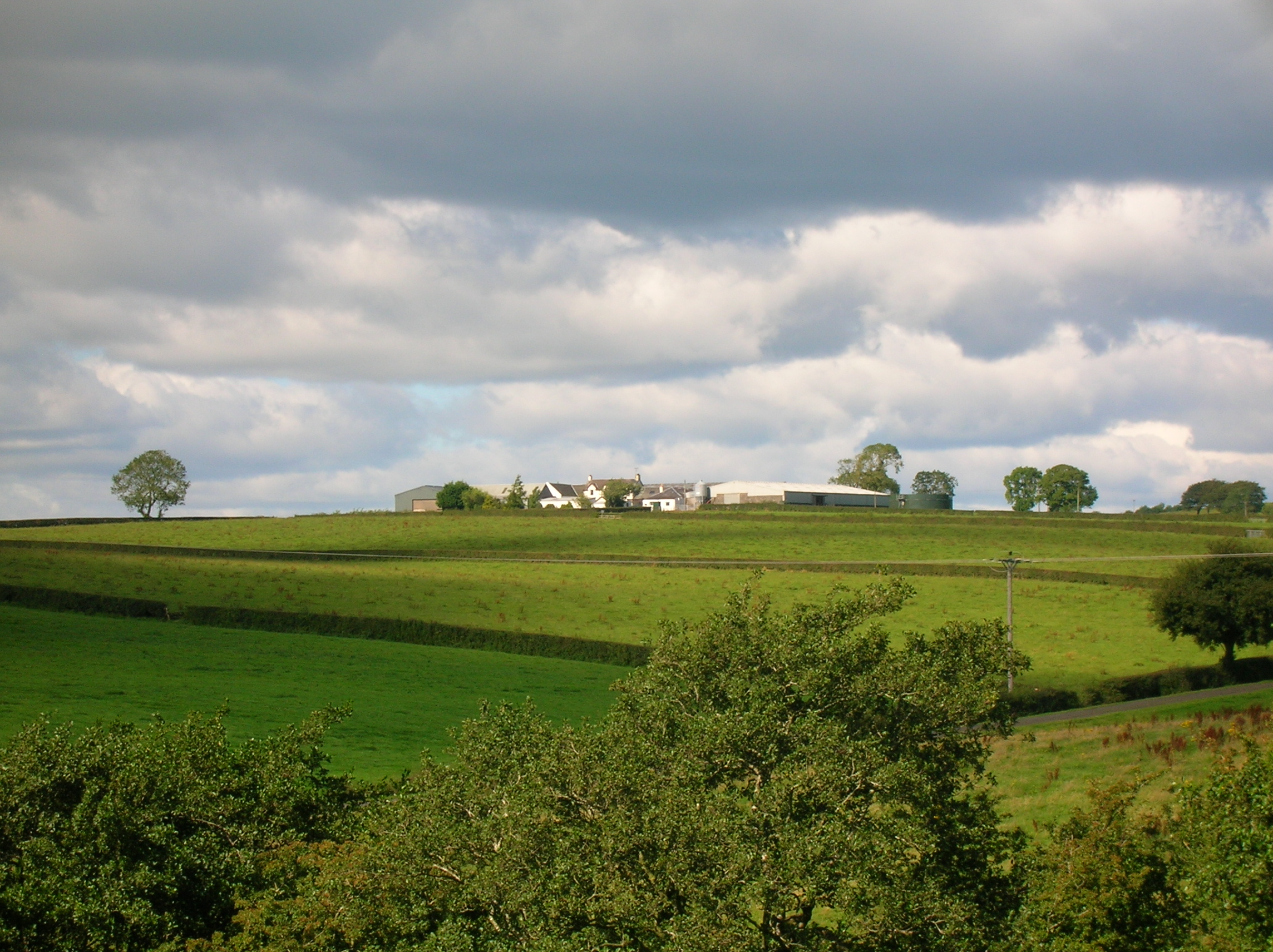 Cauldhame Farm, aort of the old Kirkwood Estate, East Ayrshire, Scotland.